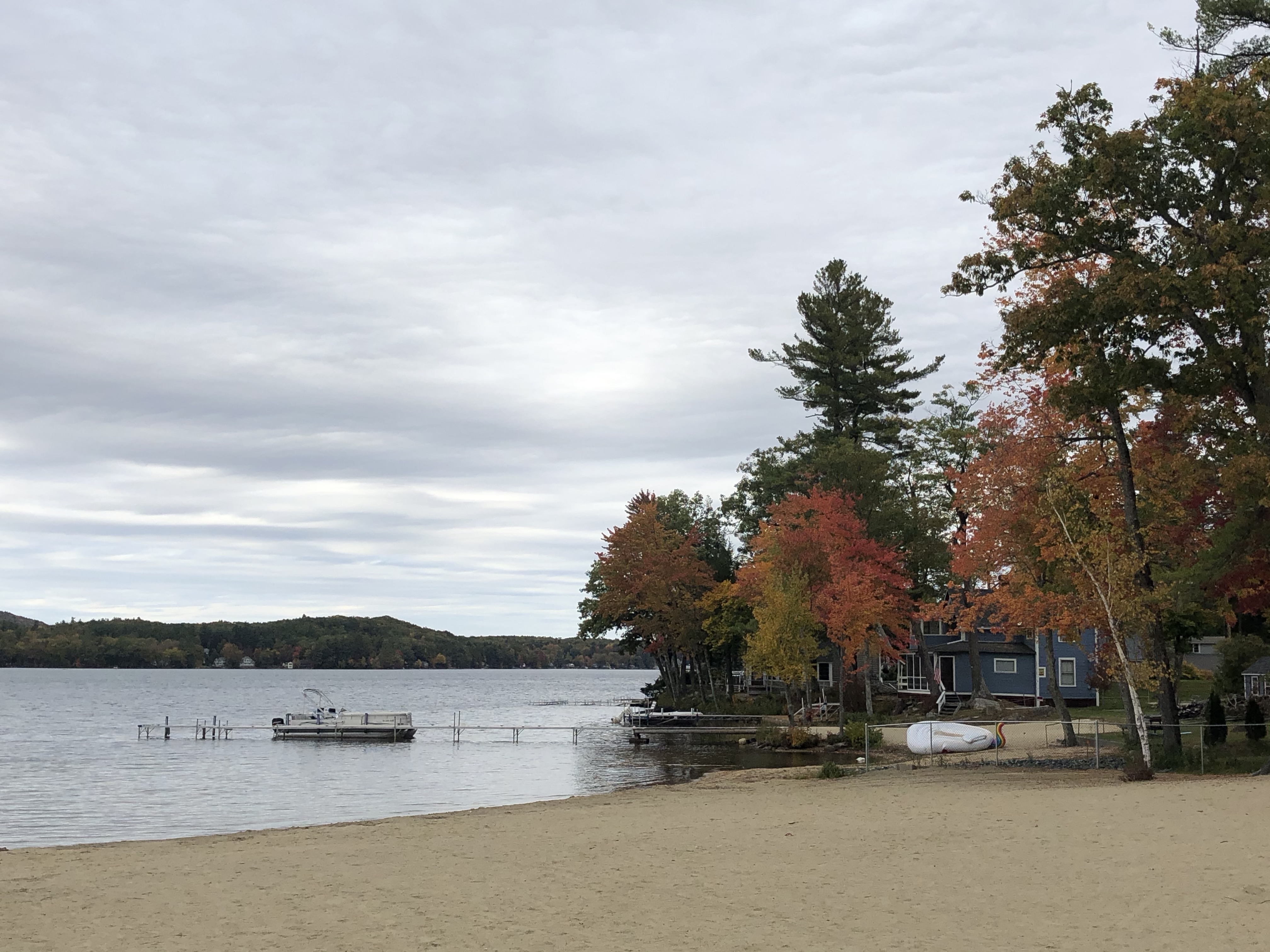 Depicted place: Spofford Lake